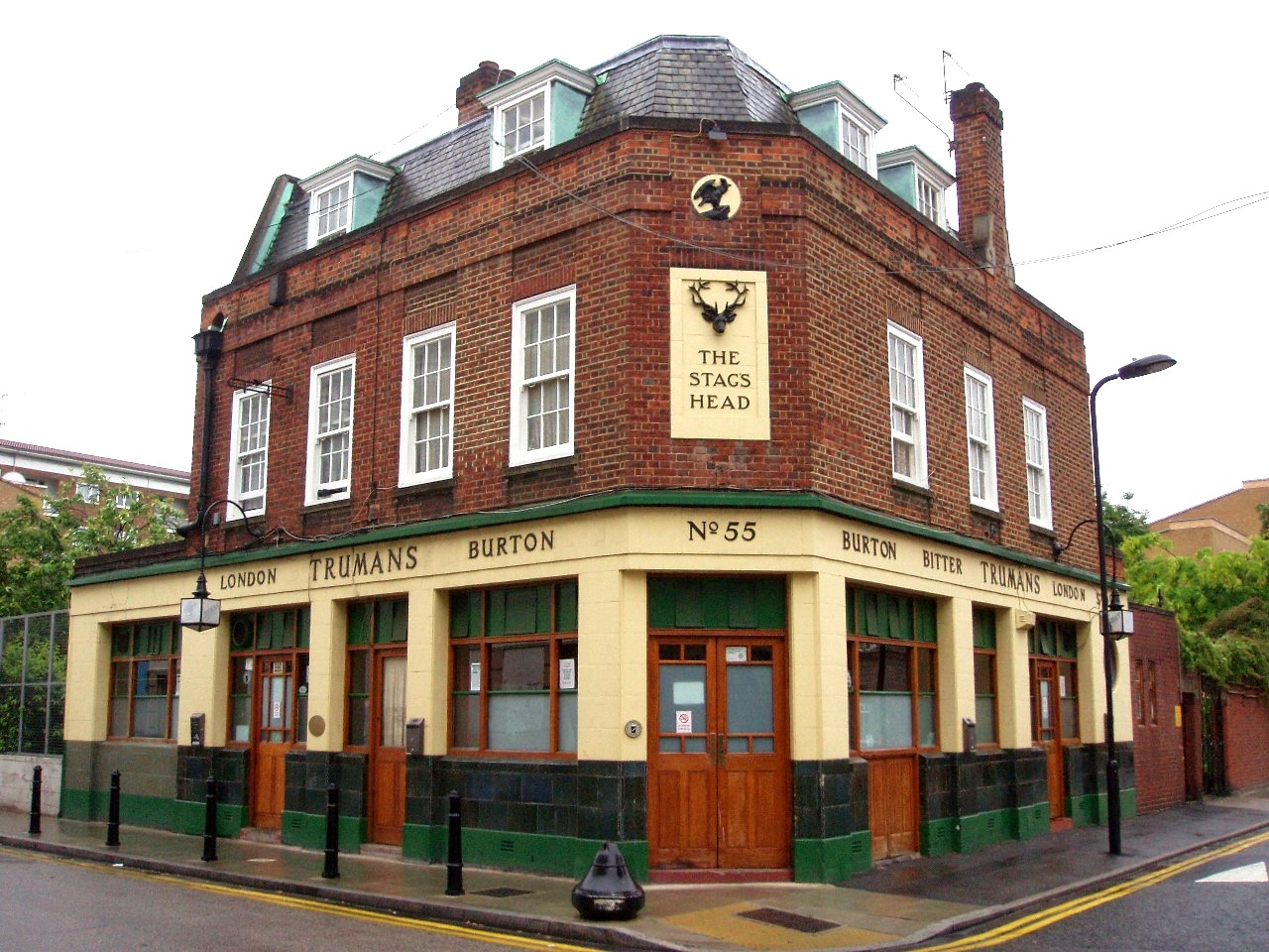 Lovely old fashioned Truman's pub, still with plenty of period fittings inside and a large beer garden, and surviving for a while as an indie pub with gigs and younger locals, which was closing as of mid-2010. (View of stag's head in interior decorations.) Address: 55 Orsman Road (formerly Canal Road). Owner: Enterprise Inns; Truman Hanbury Buxton (former). Links: London Pubology